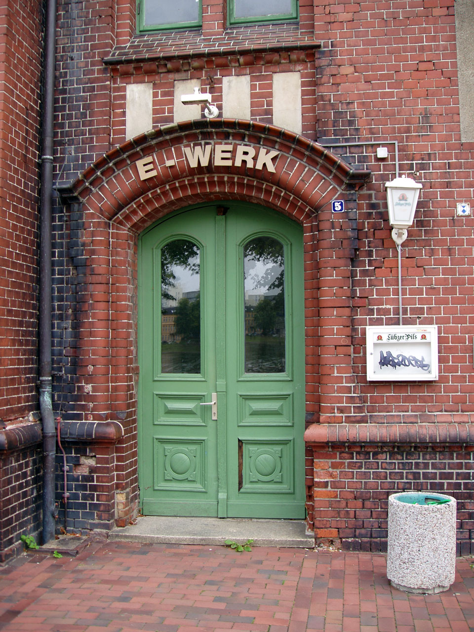 Main entrance to former power station in Schwerin in Mecklenburg-Western Pomerania, Germany